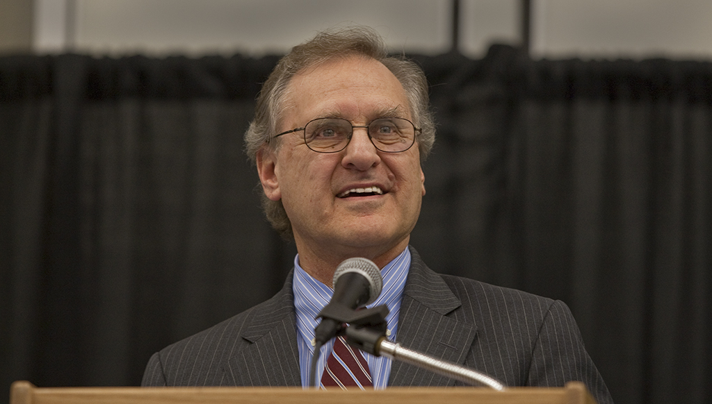 Stpehen Lewis speaking at a public event